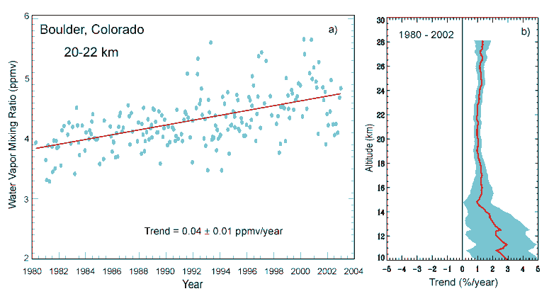 Stratospheric water vapor 1% increase. 30% may be due to increased methane. Observations using balloon-borne frost-point hygrometers, have detected an approximately 1% per year increase in stratospheric water vapor at Boulder, Colorado, since 1980. Besides implications for climate change, increased water vapor can affect the rate of chemical ozone loss, for example, by increasing the incidence of polar stratospheric clouds. Satellite measurements of water vapor, although not of adequate length for accurate trend determination, suggest that the increase may extend to other latitudes.[1] Observations have provided evidence for a widespread increase in stratospheric water vapor, which plays a role both in cooling the lower stratosphere and in depleting ozone through chemical interactions, thereby contributing to climate processes. However, the water vapor trends are not fully defined, nor are their cause understood.[2] Stratospheric water vapor measurements at a single location (Boulder, Colorado, U.S., 40°N) for the period 1981-2000 show a statistically significant increase of approximately 1%/year over altitudes 15-28 km. For the shorter period 1991-2001, global satellite measurements covering latitudes 60°N-60°S show a similar trend of 0.6-0.8%/year for altitudes ~25-50 km, but no significant trend at lower altitudes. The increases in water vapor are substantially larger than can be explained by tropospheric methane trends. Characterization of stratospheric water vapor trends is limited by the lack of global long-term measurements.[3] This graph image could be recreated using vector graphics as an SVG file. This has several advantages; see Commons:Media for cleanup for more information. If an SVG form of this image is available, please upload it and afterwards replace this template with vector version available|new image name.svg .